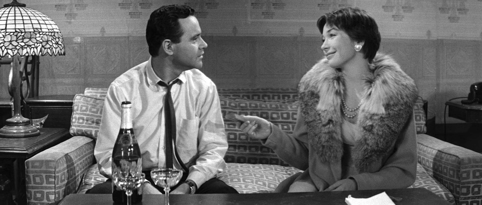 Screenshot of Jack Lemmon and Shirley MacLaine in the trailer of the film The Apartment (1960).